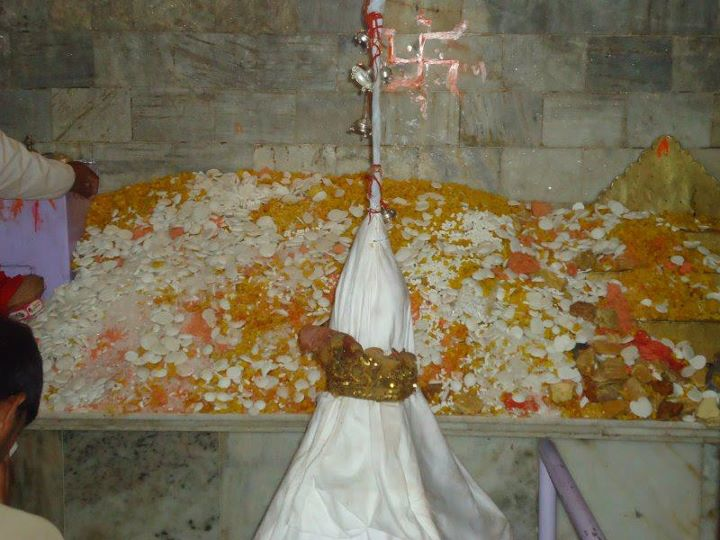 the picture of Baba thakur ji on Holi.